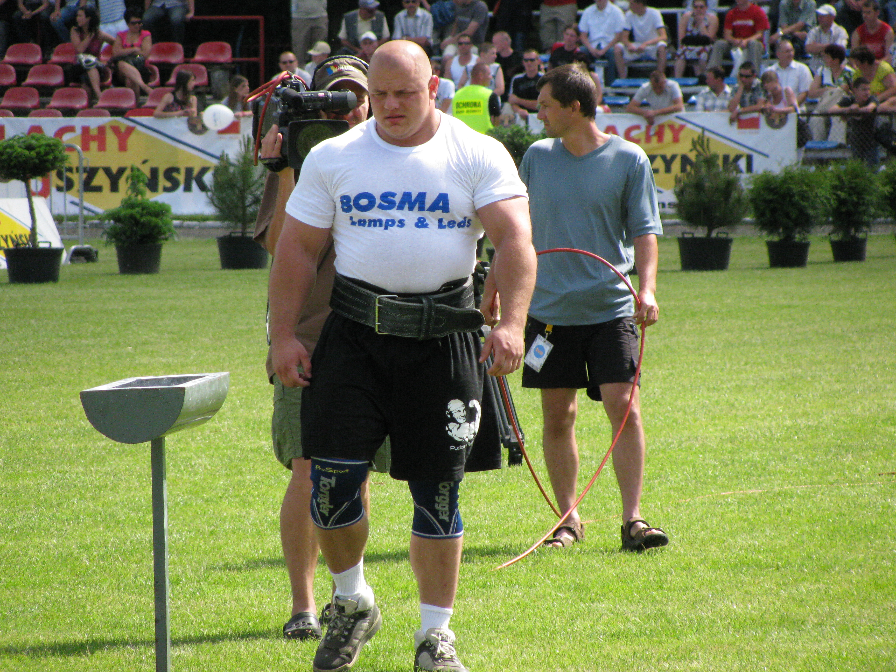 Tomasz Kowal - a strength athlete from Poland.